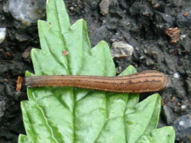 Haemadipsa zeylanica japonica around Mount Nōgōhaku, Japan